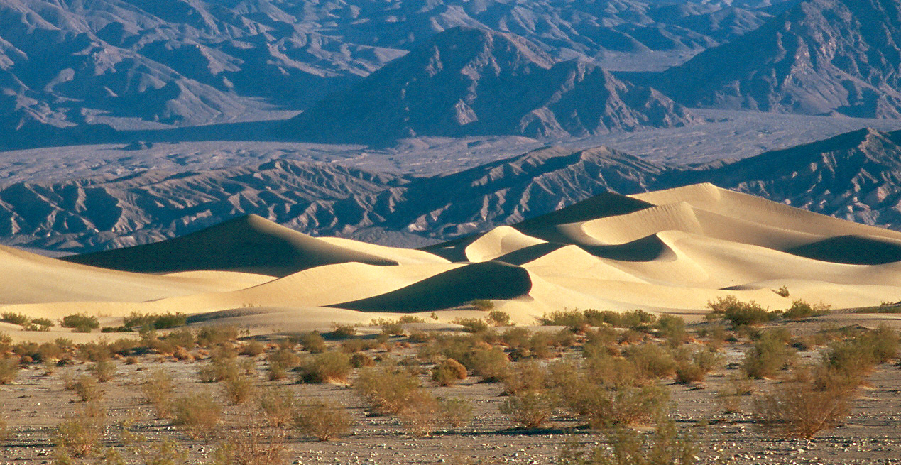 Mesquite Sand Dunes, Death Valley (USA).